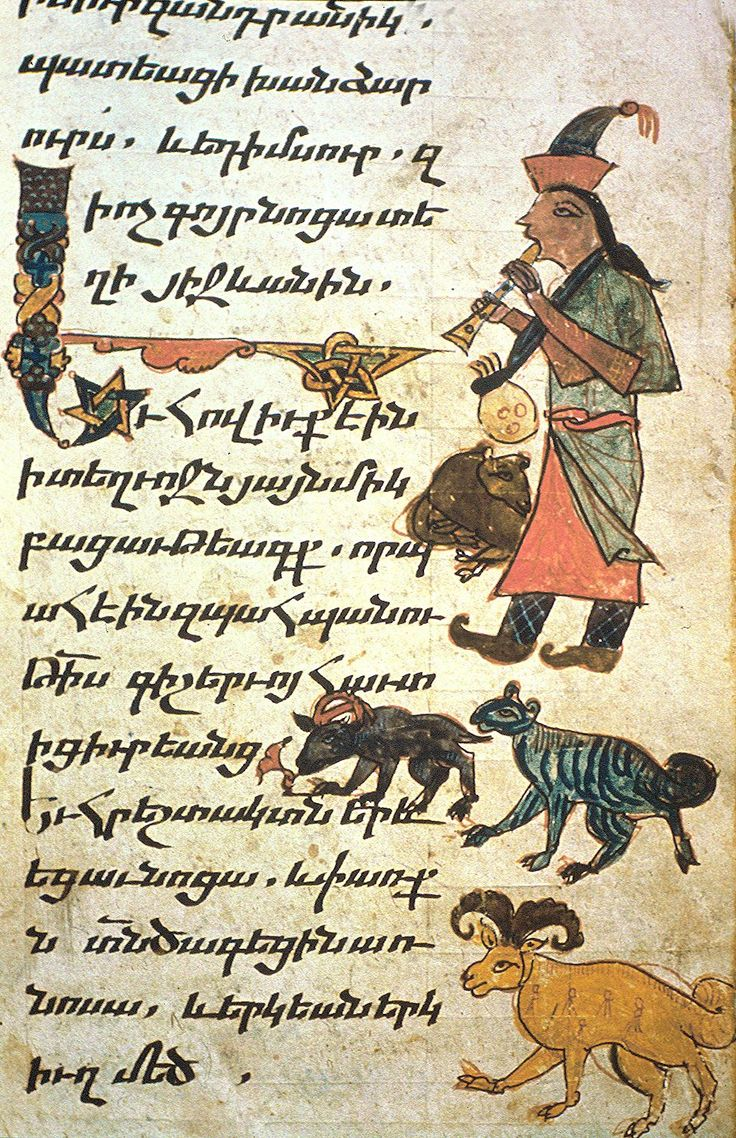 Erevan, Matenadaran, MS 3722, Gospel, Nakhijevan, 1304, Shepherd playing the flute